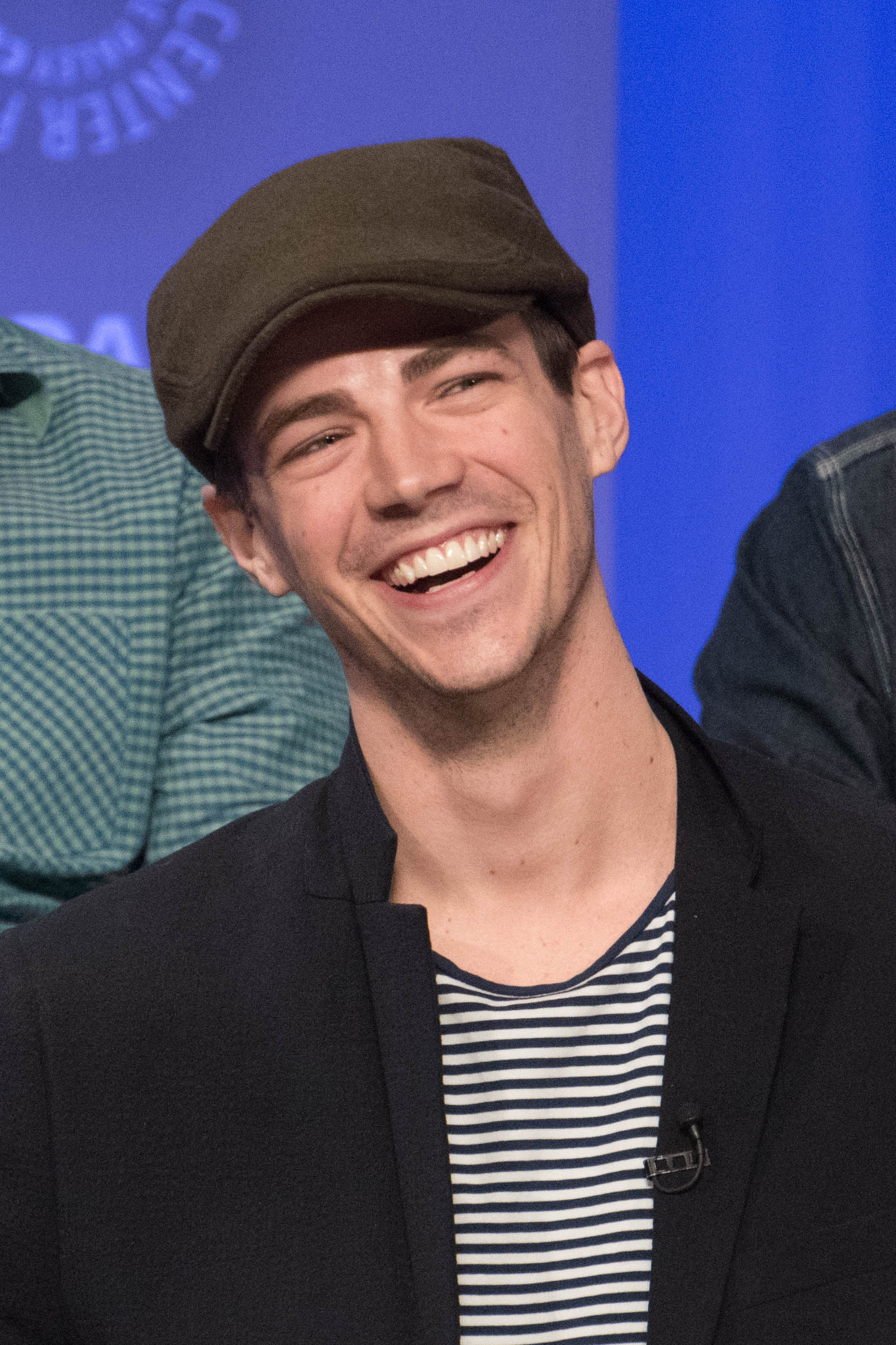 Grant Gustin at the Heroes and Aliens PaleyFest 2017.